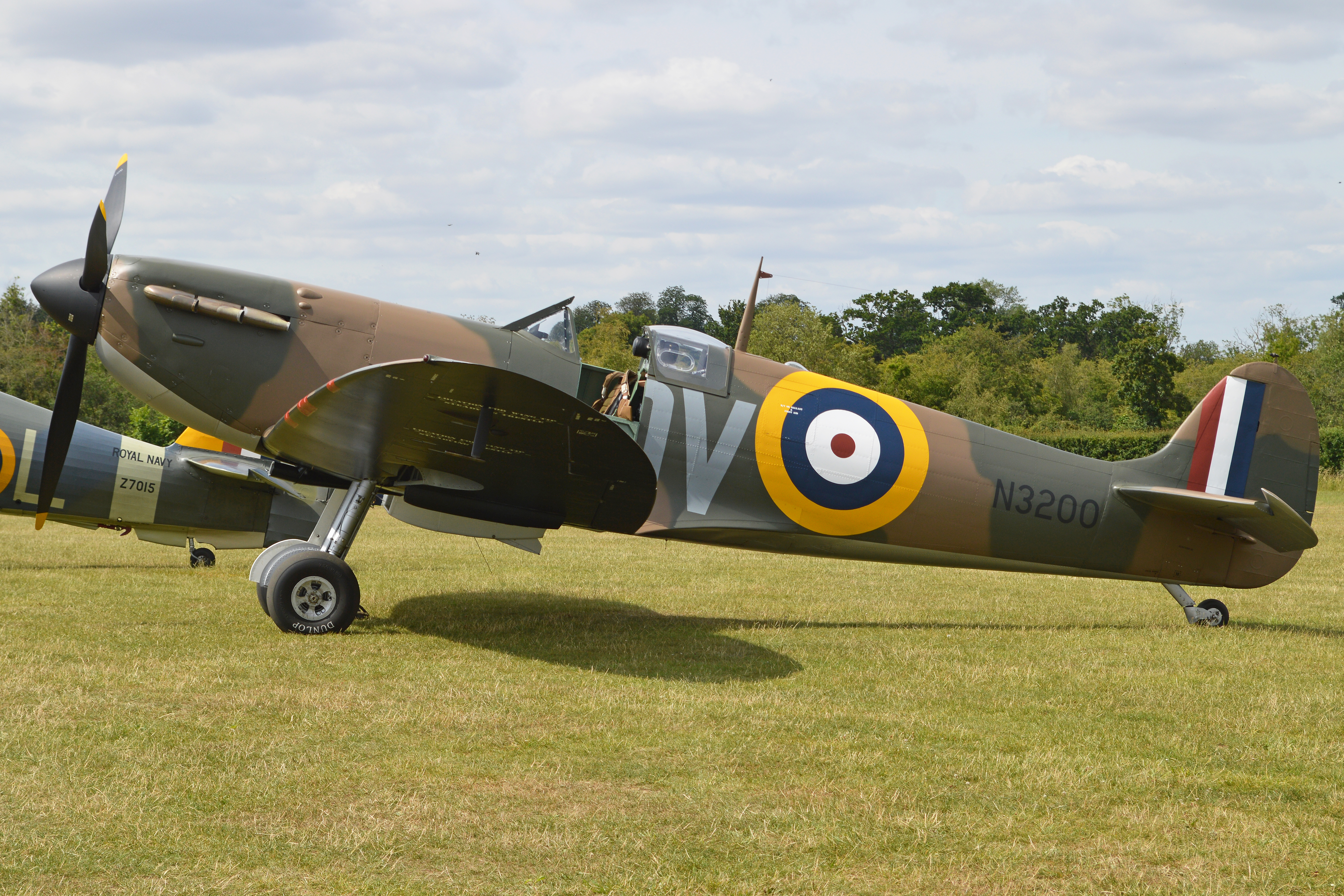 c/n 441. Recently donated to the Imperial War Museum, Duxford, and being operated for them by ARCo / Historic Flying Ltd. Wearing her own genuine 19sqn markings, exactly as she was on the day she was shot down over Dunkirk in 1940. Seen at the 'Best of British' Flying Evening, Old Warden, UK. 18-7-2015